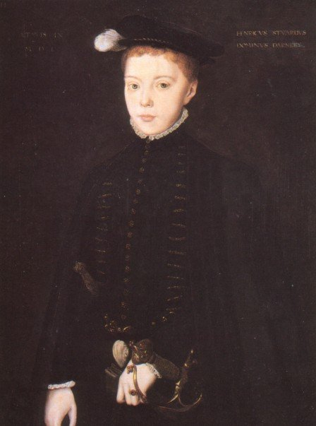 A portrait of a young Henry, the hated second husband of Mary, Queen of Scots and the father of her only child, James I of England, by Hans Eworth, in the Scottish National Portrait Gallery.